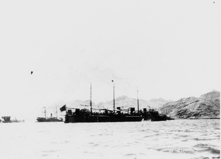 An unidentified Spanish Navy destroyer -- either Terror, Furor, or Pluton -- at São Vicente during the Spanish-American War, sometime between 14 April 1898 and 29 April 1898.